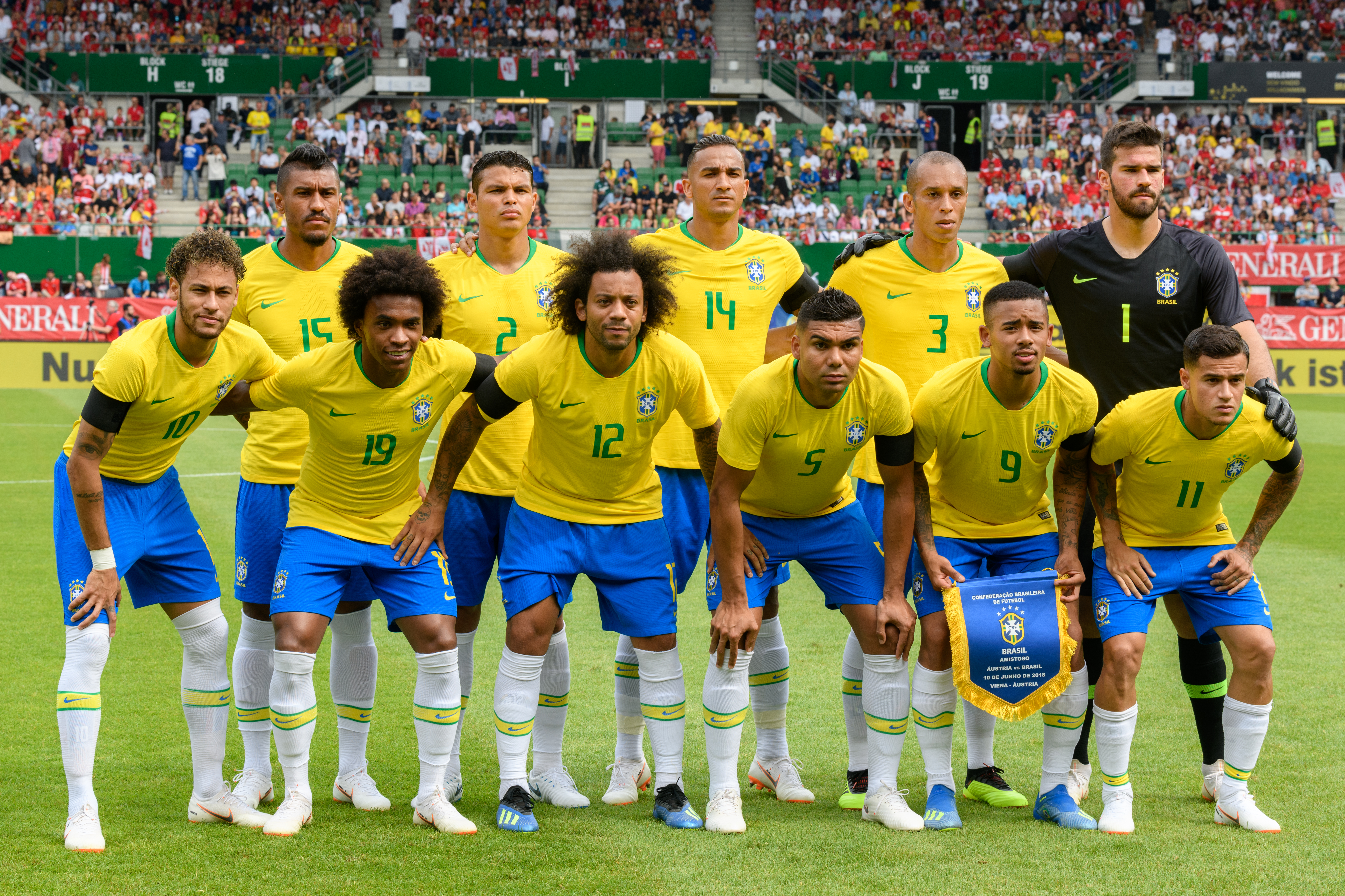 FIFA Friendly Match Austria vs. Brazil 2018/06/10 in Vienna/Ernst-Happel-Stadium. Picture shows Brazilian national team Paulinho (15), Thiago Silva (2), Danilo (14), Miranda (3), Alisson (1), Neymar (10), Willian (19), Marcelo (12), Casemiro (5), Gabriel Jesus (9) and Philippe Coutinho (11).